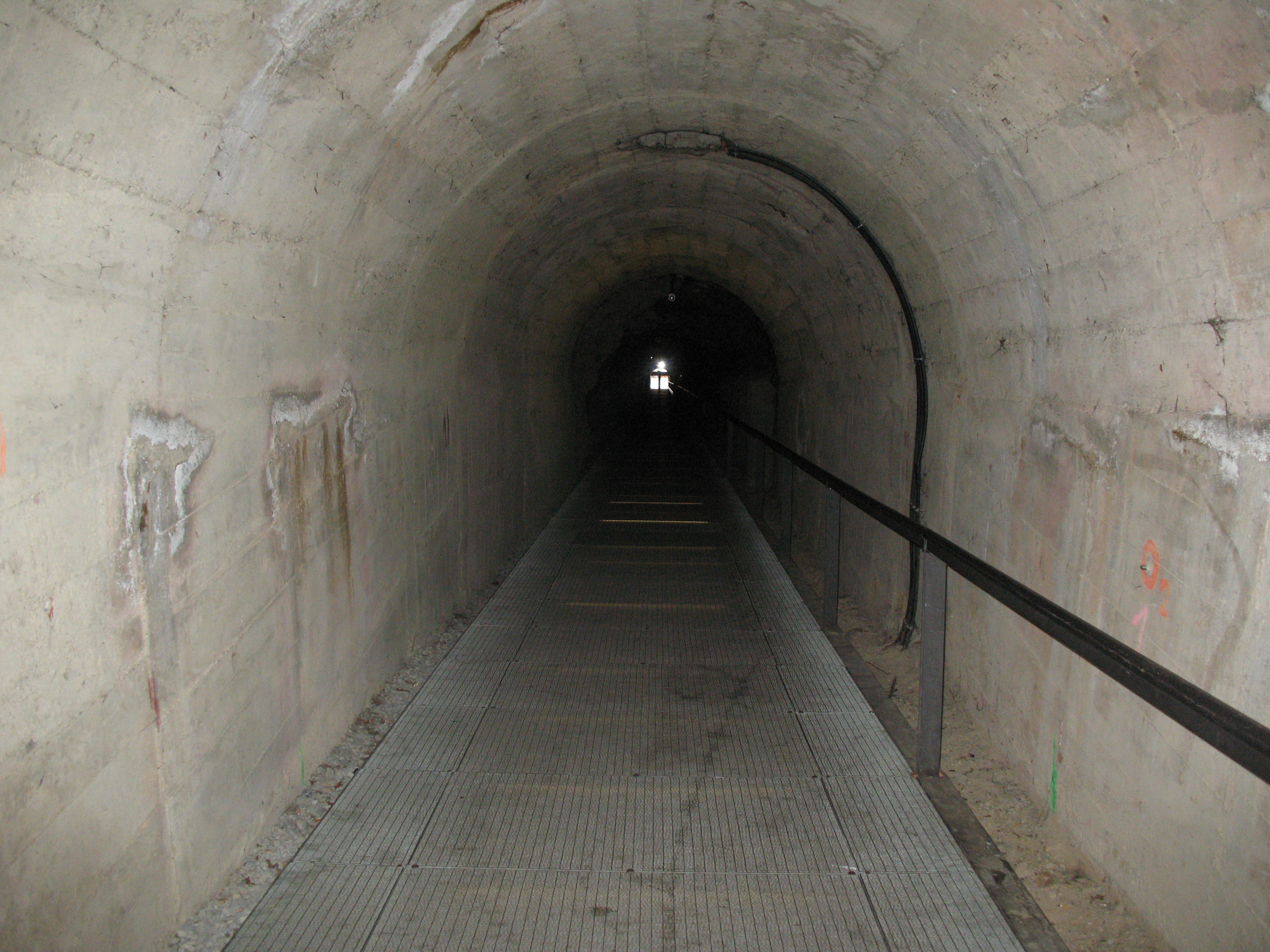 Castle Hill Caves, Graz, Austria